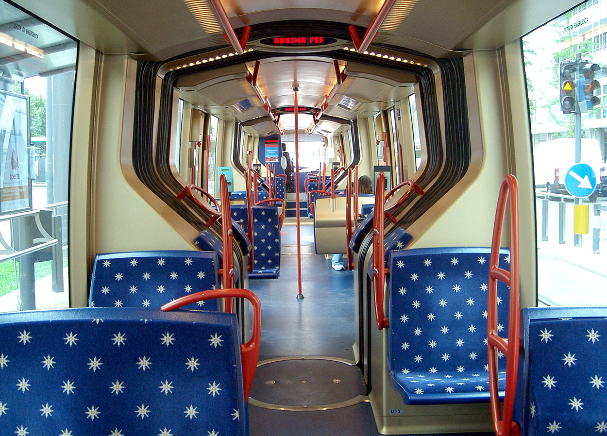 Inside a Padova Translohr. Note the upholstered perches on the articulations.